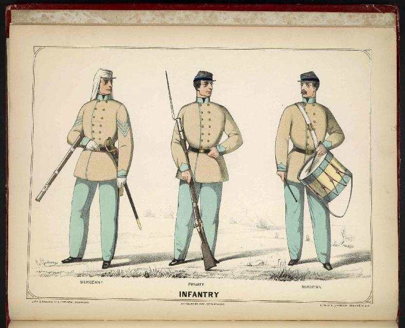 Infantry